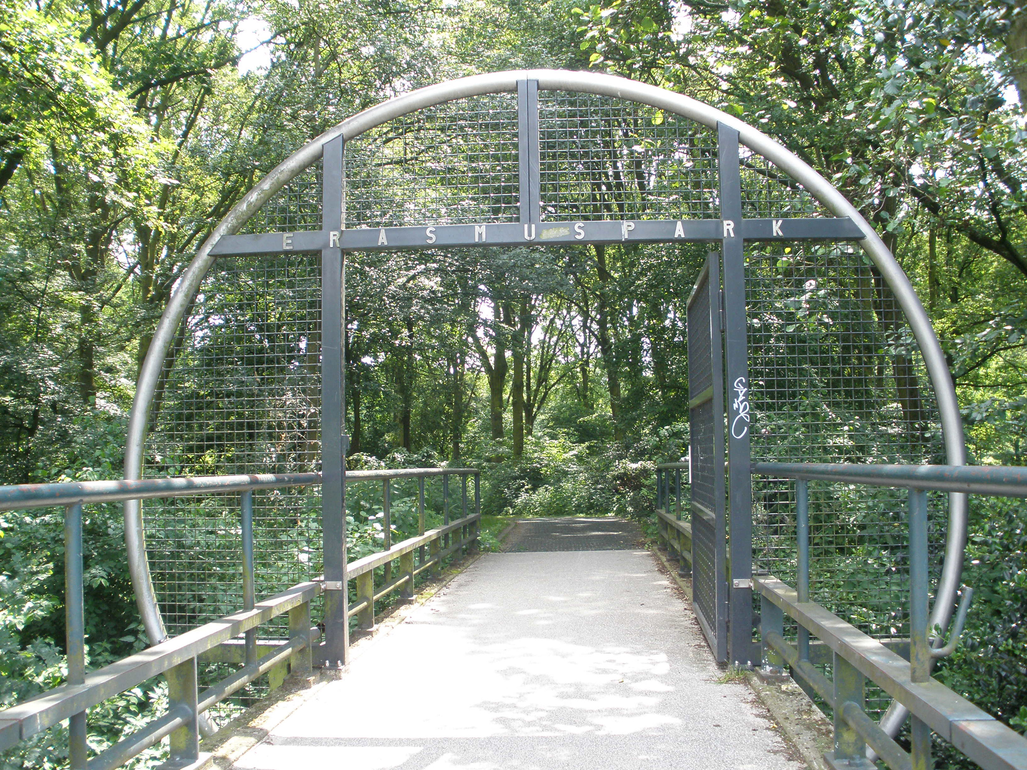 A gate of the Erasmuspark in Amsterdam, the Netherlands